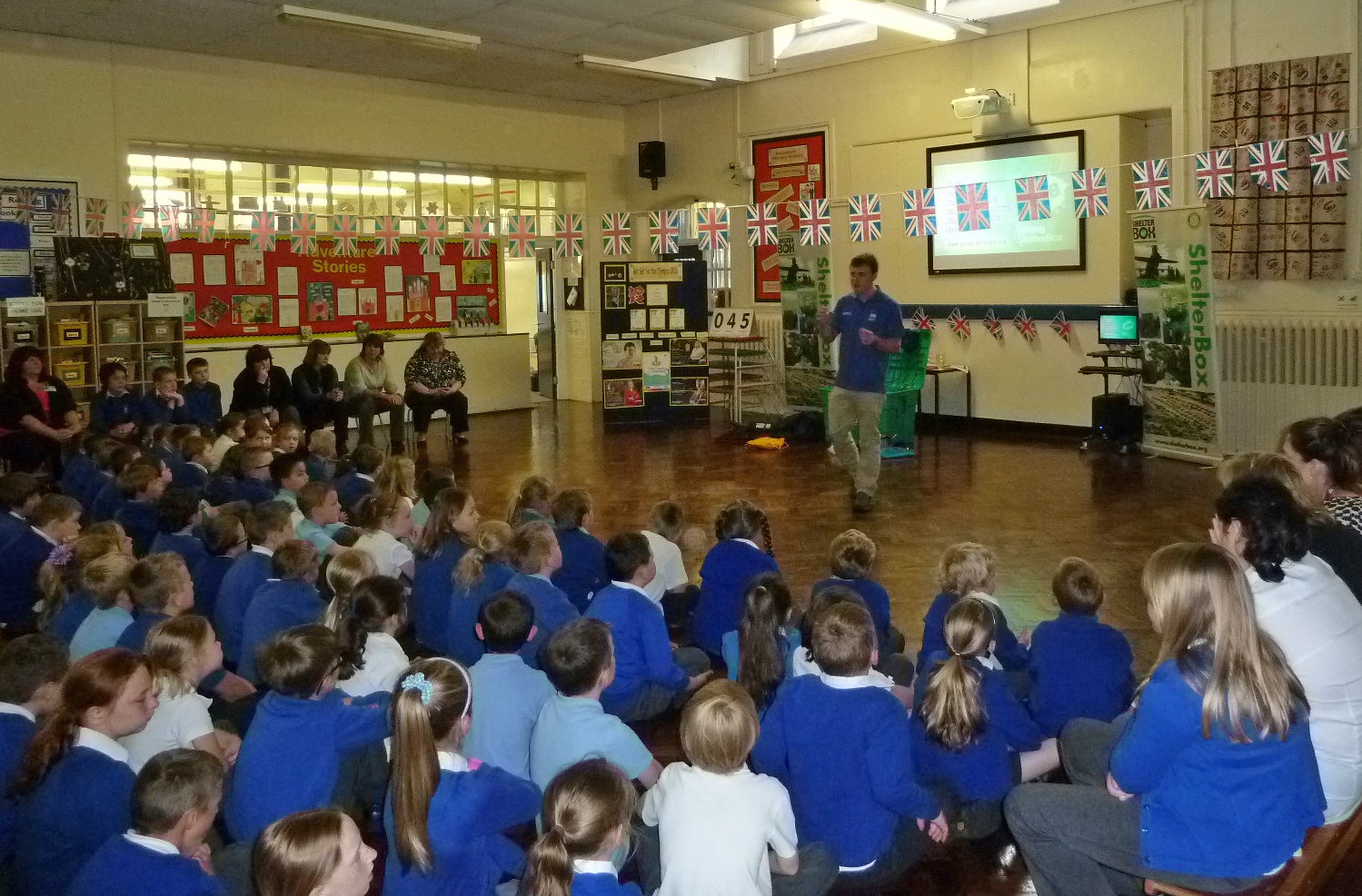 Mike Perham gives a talk to introduce ShelterBox in a UK Primary school